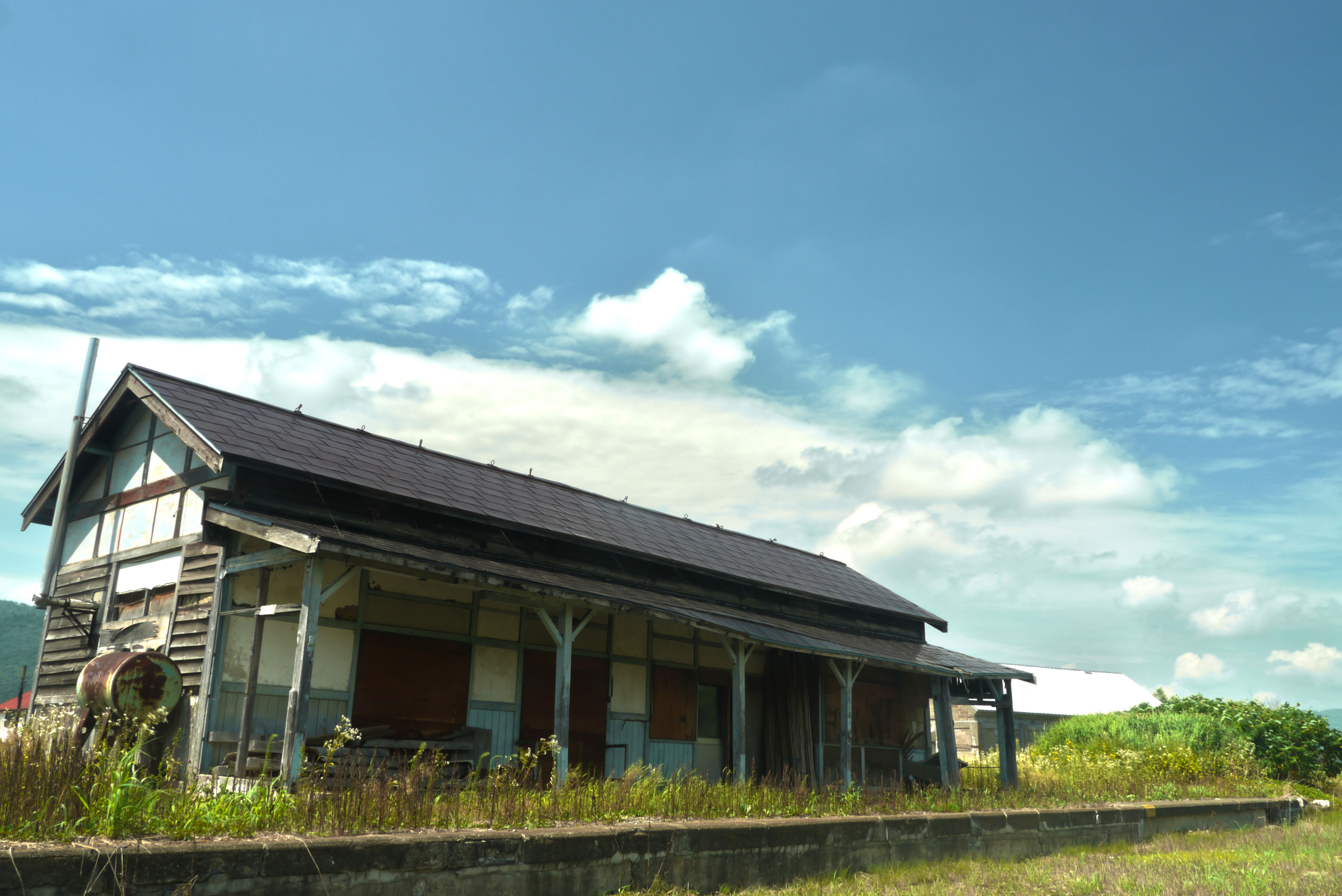 The remains of Takadomari Station of the Shinmei Line in Hokkaido, Japan.